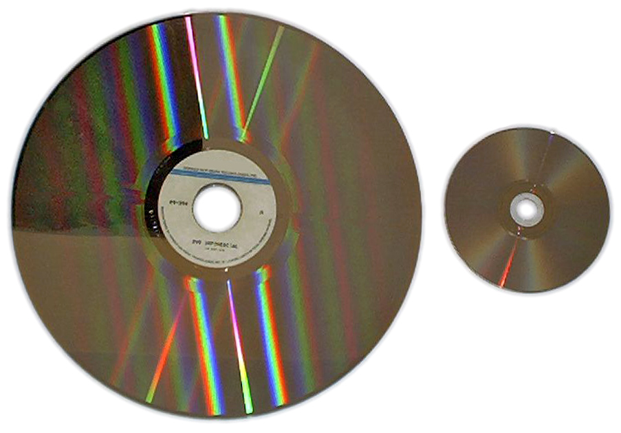 A laserdisc (left) compared with a DVD (right).